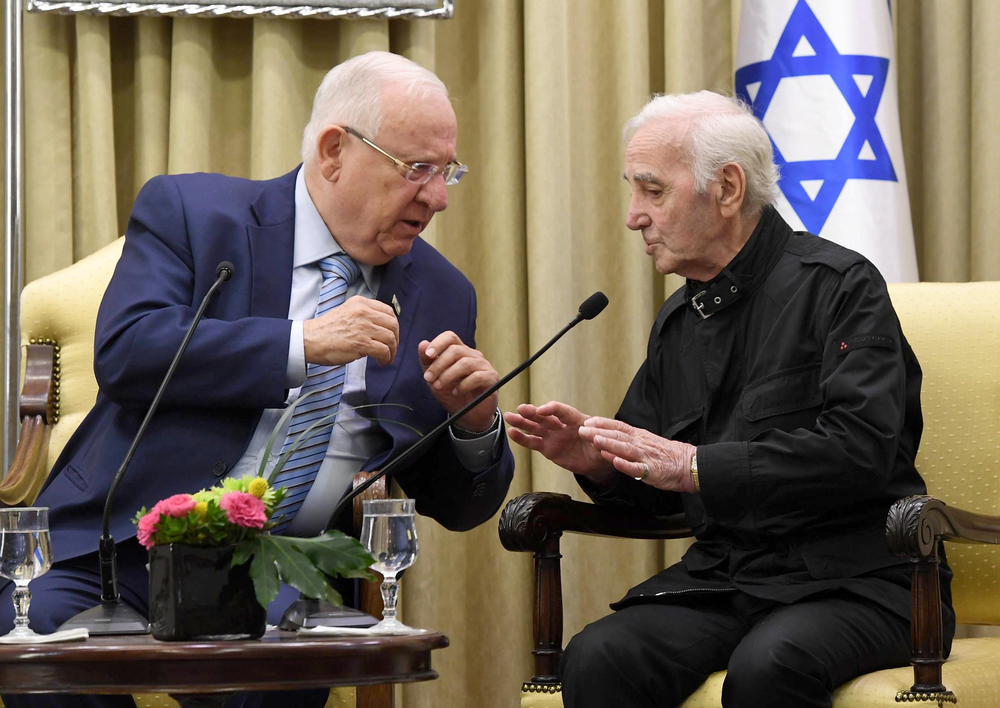 The President of Israel, Reuven Rivlin, hosts the singer Charles Aznavour at Beit HaNassi. Thursday, October 27, 2017. Photo Credit: Mark Neyman / GPO.